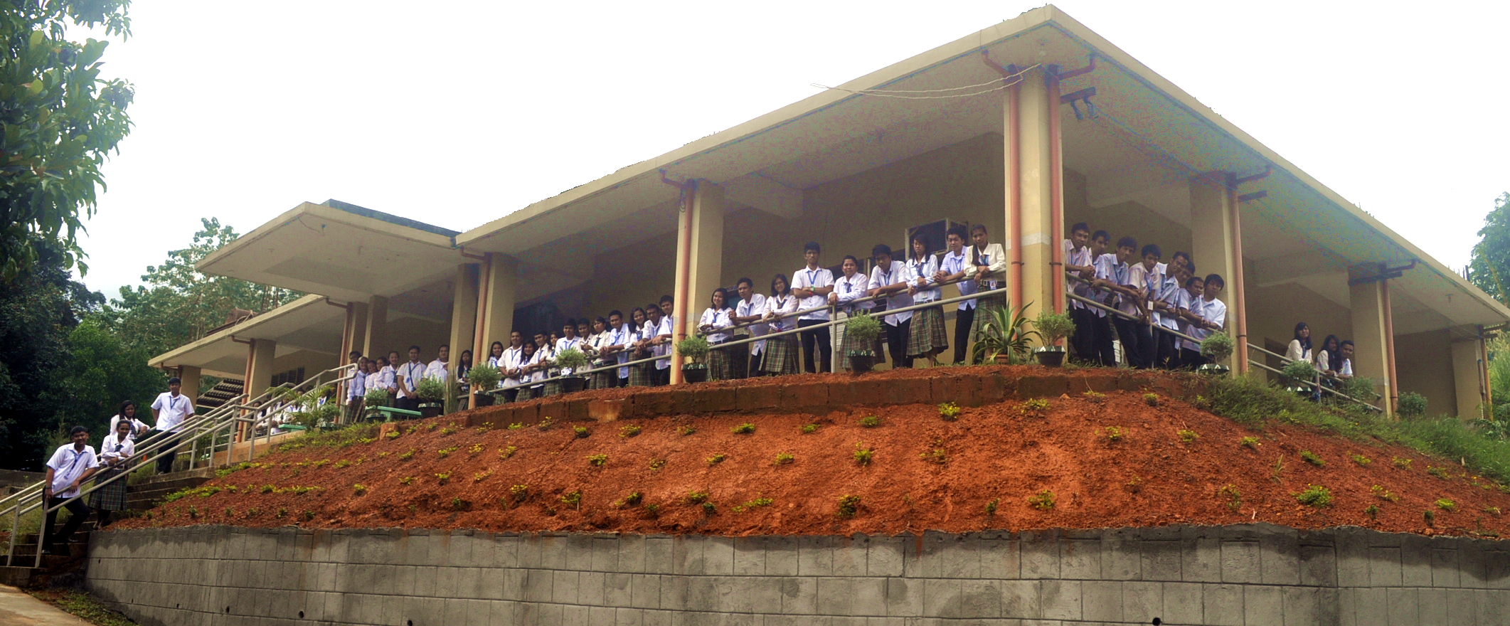 MCCID College facade main campus in San Mateo, Rizal